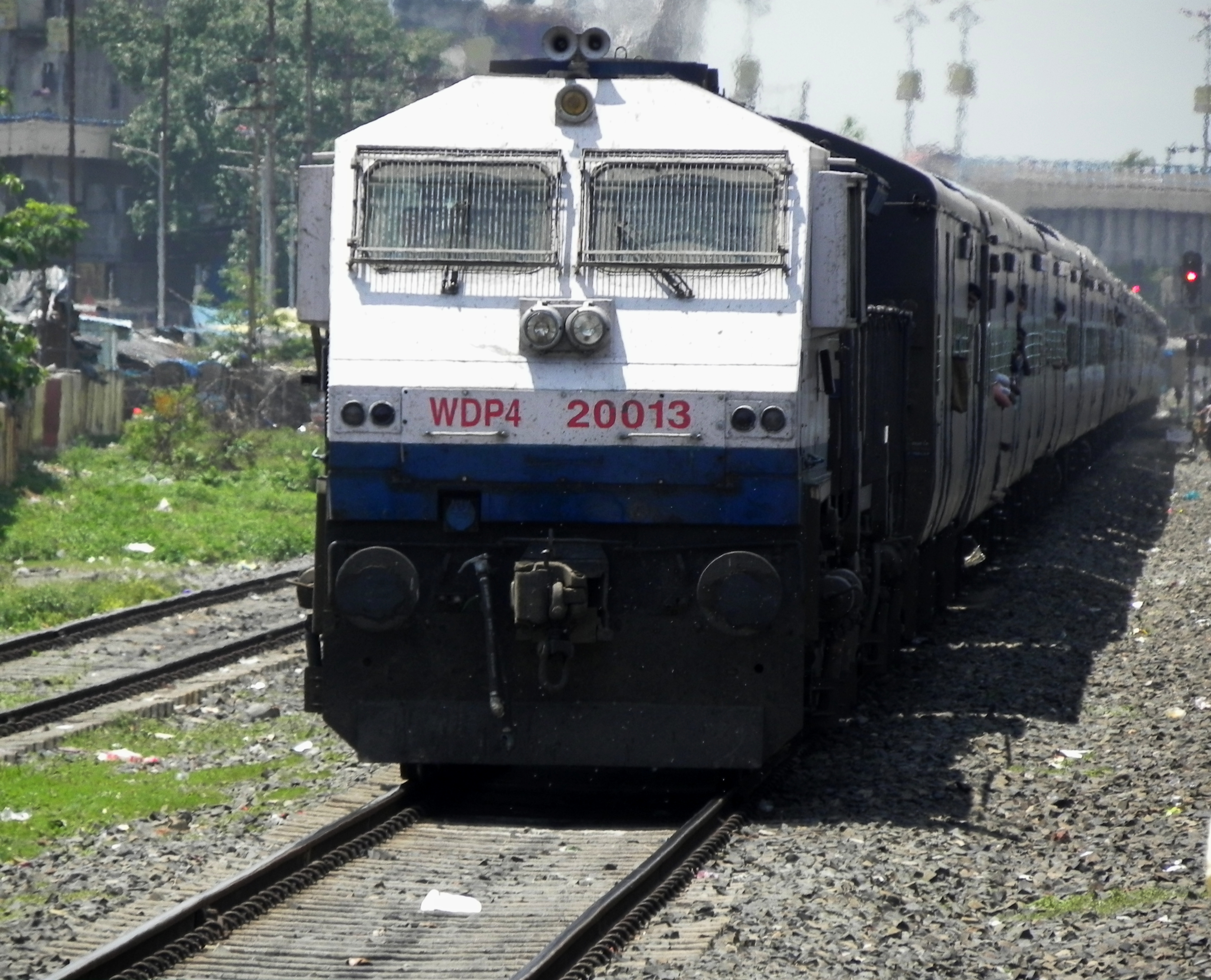 Delhi Bound Mahananda Express at Siliguri Town with WDP 4 locomotive (20013)